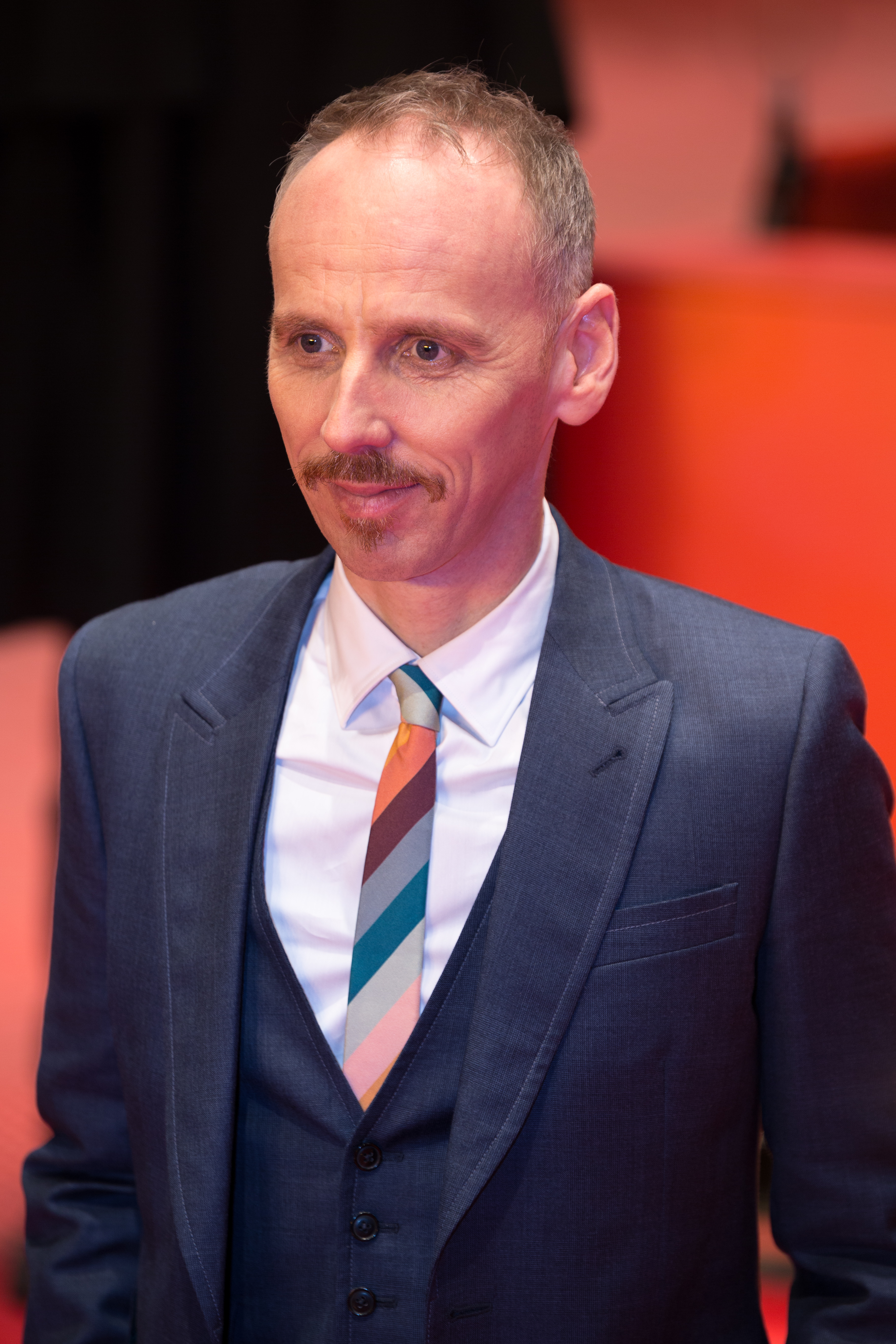 Ewen Bremner at the opening night of T2 Trainspotting, Berlinale 2017